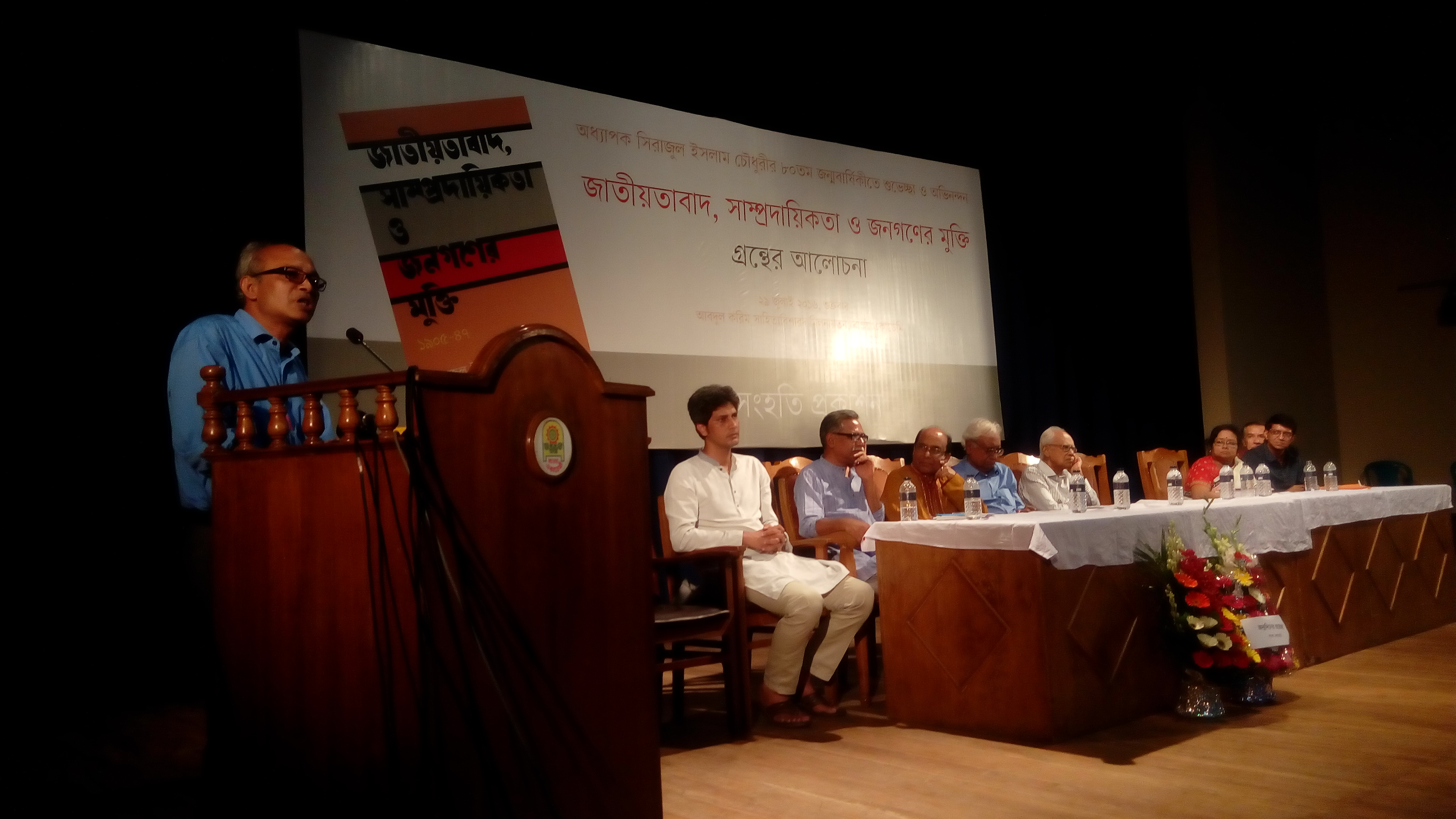 Nurul Kabir in Bangla Academy